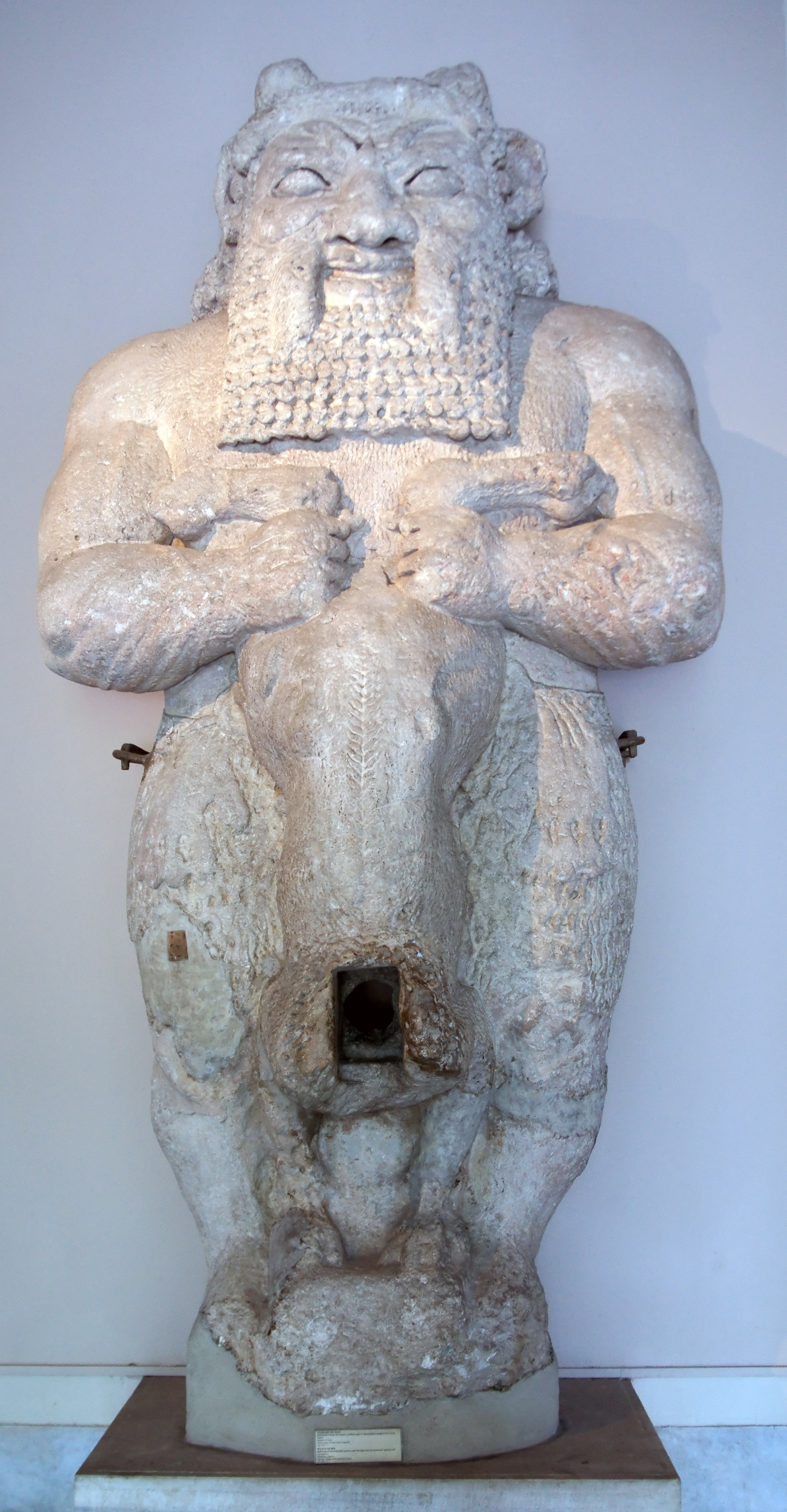 Statue of the half-god Bes. Limestone, Amanthus (Cyprus), Roman copy of the Archaic style. Istanbul Archaeological Museums, inv.no. 3317 T.